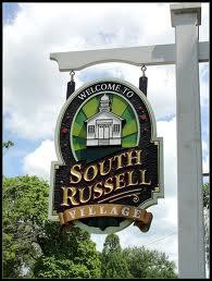 South Russel Village city line entrance sign